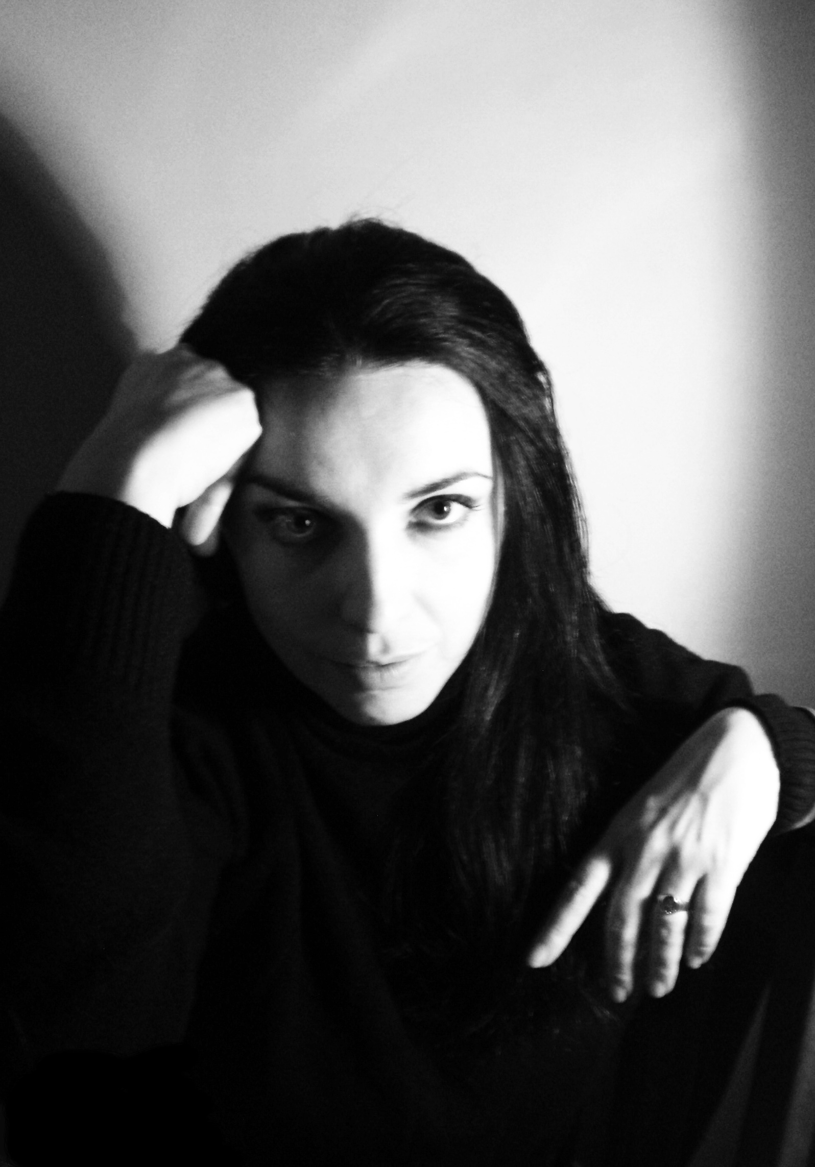 Meli Valdes Sozzani (2013)